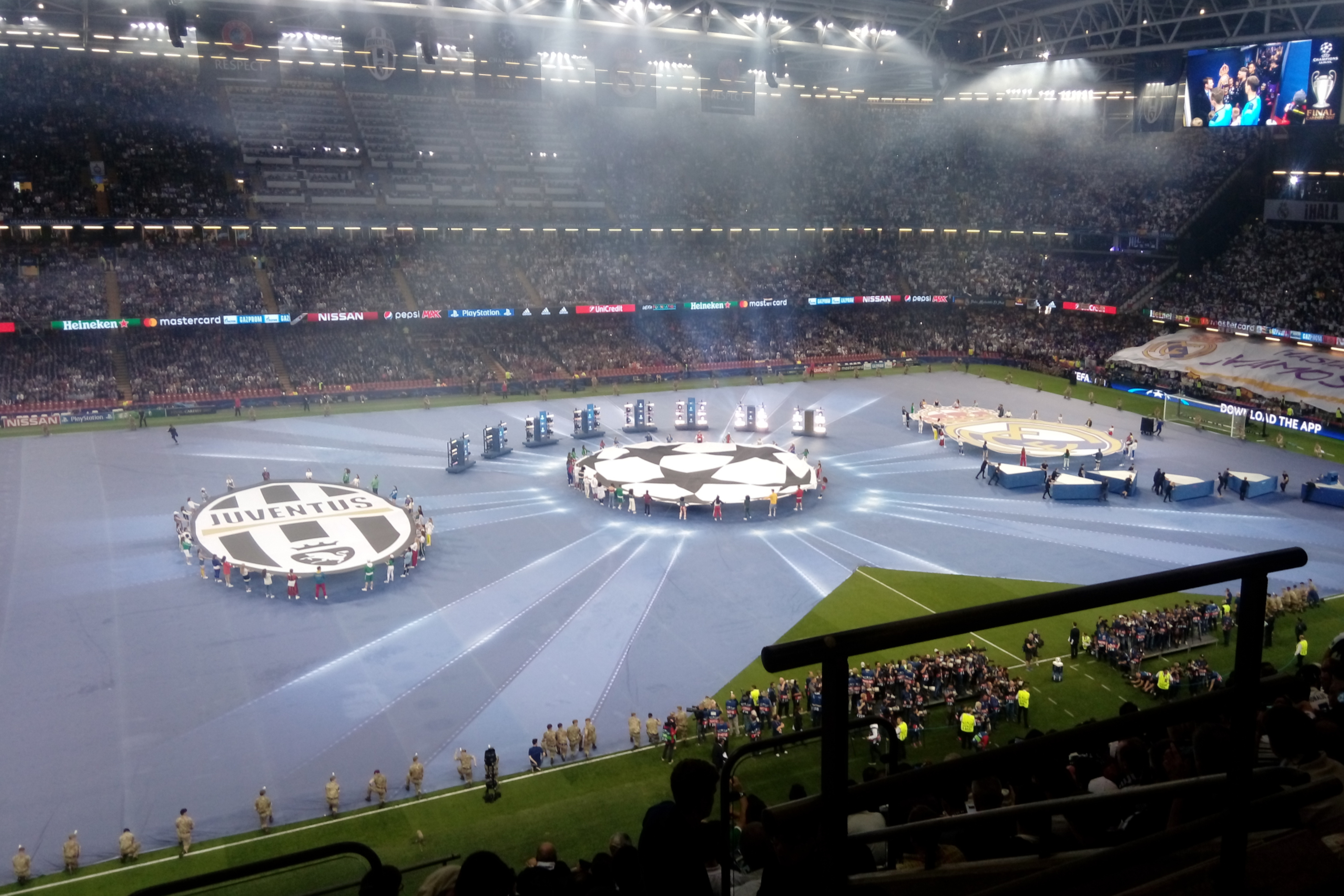 Opening ceremony of the 2017 UEFA Champions League final at Millennium Stadium, Cardiff